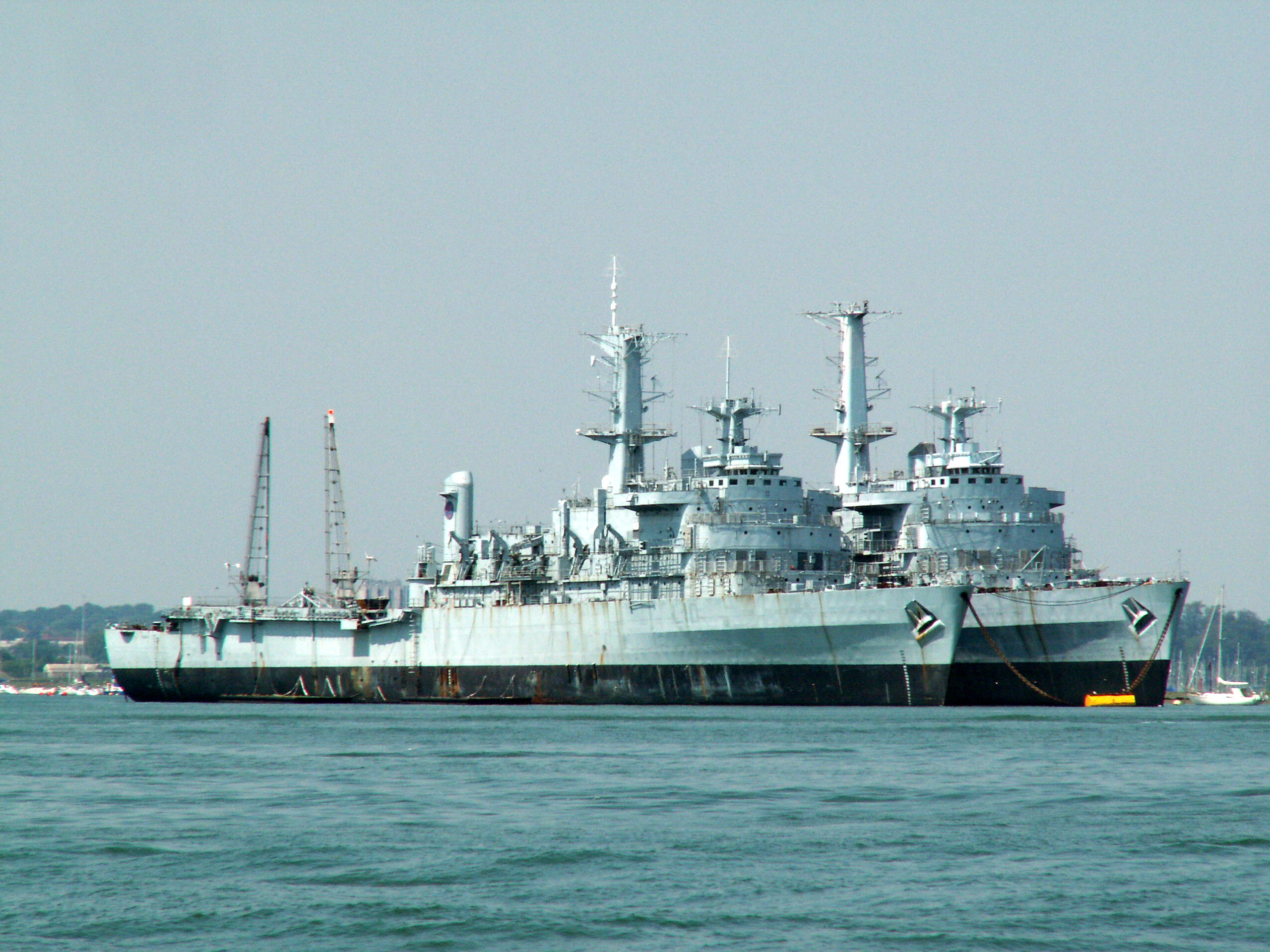 Fearless & Intrepid, Portsmouth, UK.